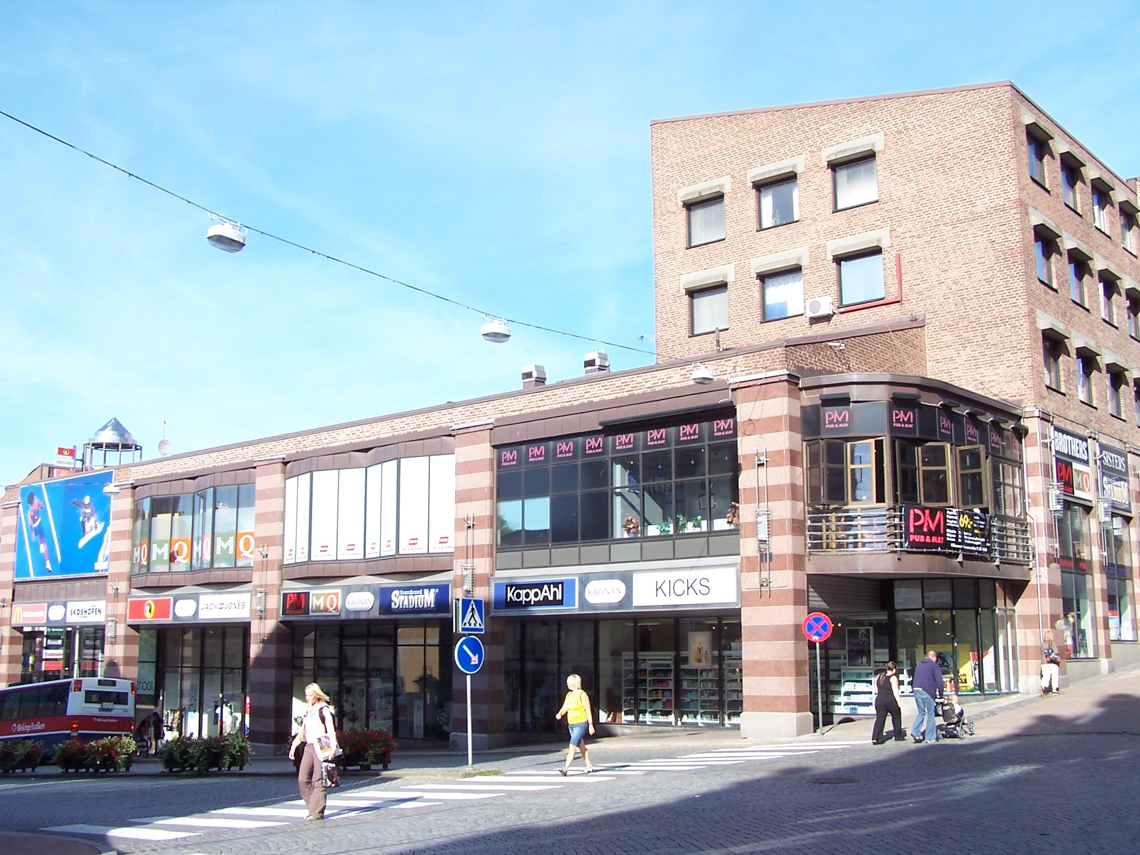 Affärshuset Kronan, Karlskrona. The building was earlier owned by KF and DOMUS warehouse. Today it's a shopping galleria.